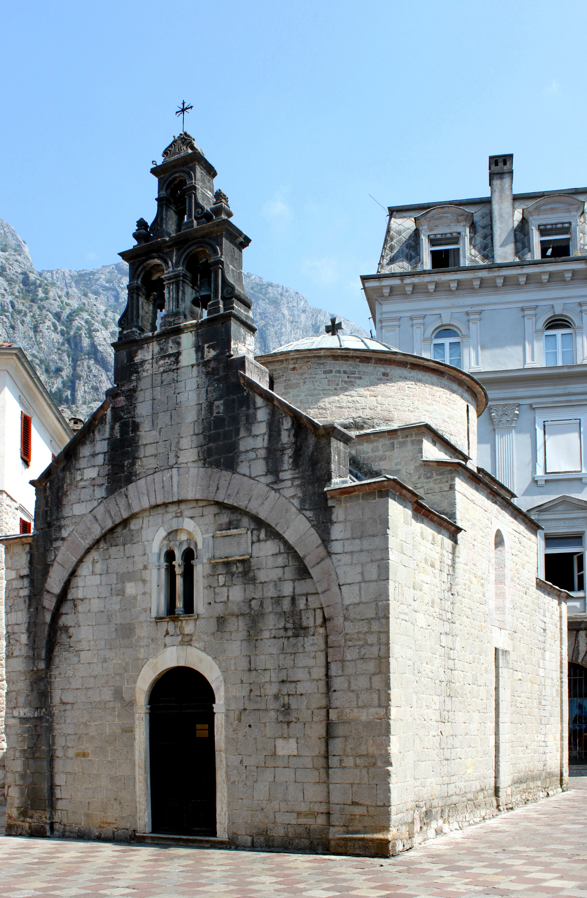 Saint Luke church. Kotor, Montenegro.